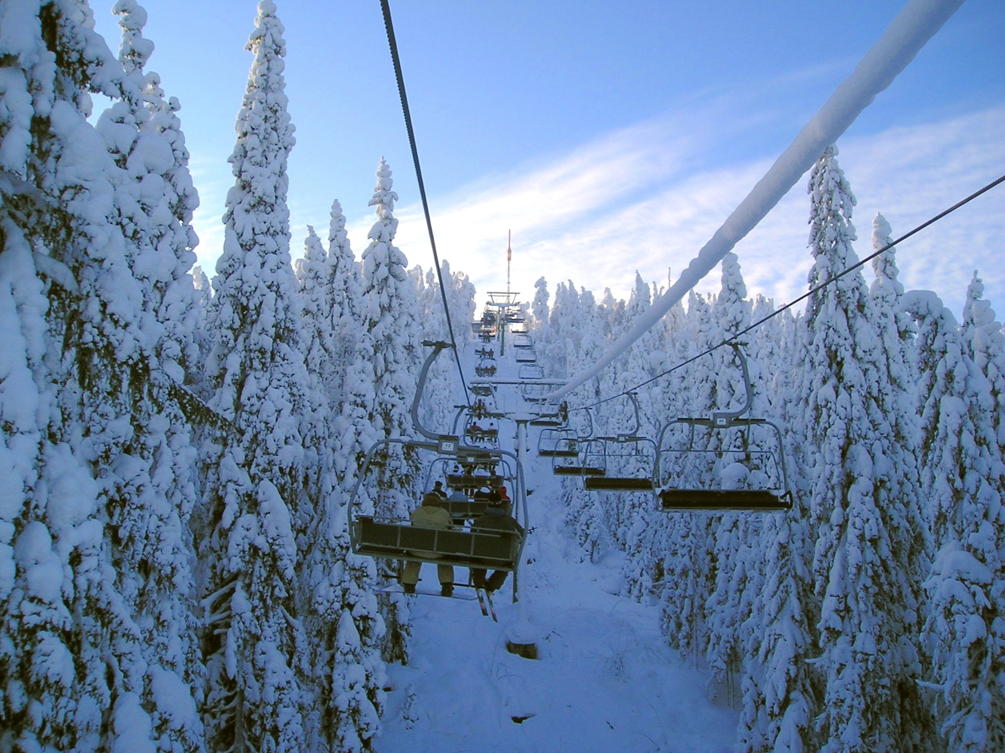 Photo from platter lift from Vuokatti ski resort, Sotkamo, Finland.